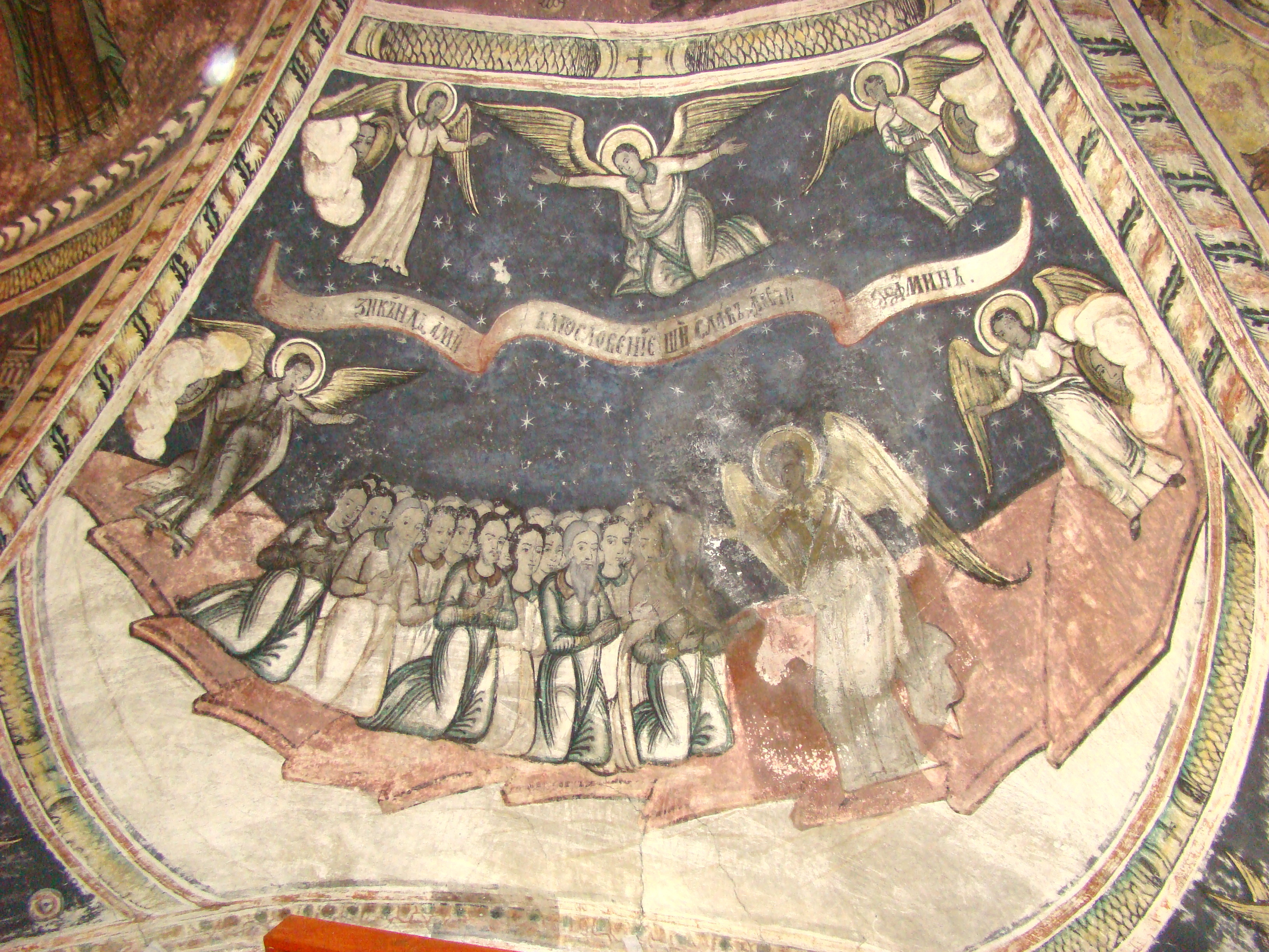 The church of the Descent of the Holy Spirit in Micești, Cluj county, Romania